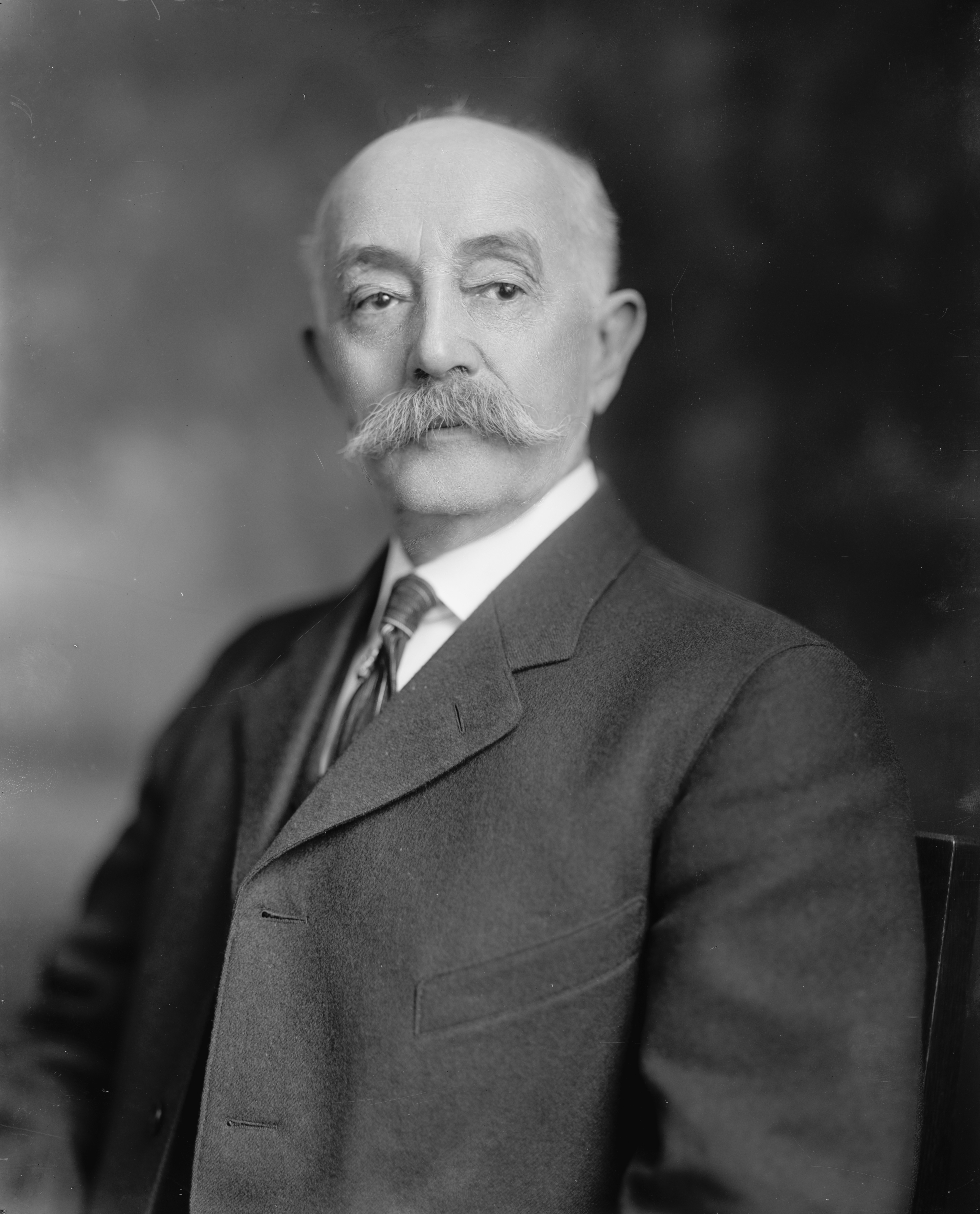 Title: HULLINGS, WILLIS J. Abstract/medium: 1 negative : glass ; 8 x 10 in. or smaller